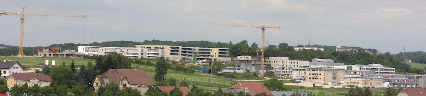 View of the Hauts-de-Chazal from Chateaufarine, in Besançon (France)